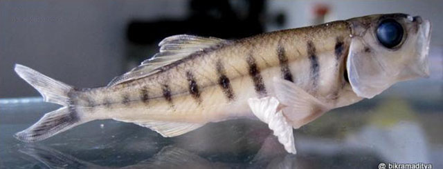 Barilius barna of asia